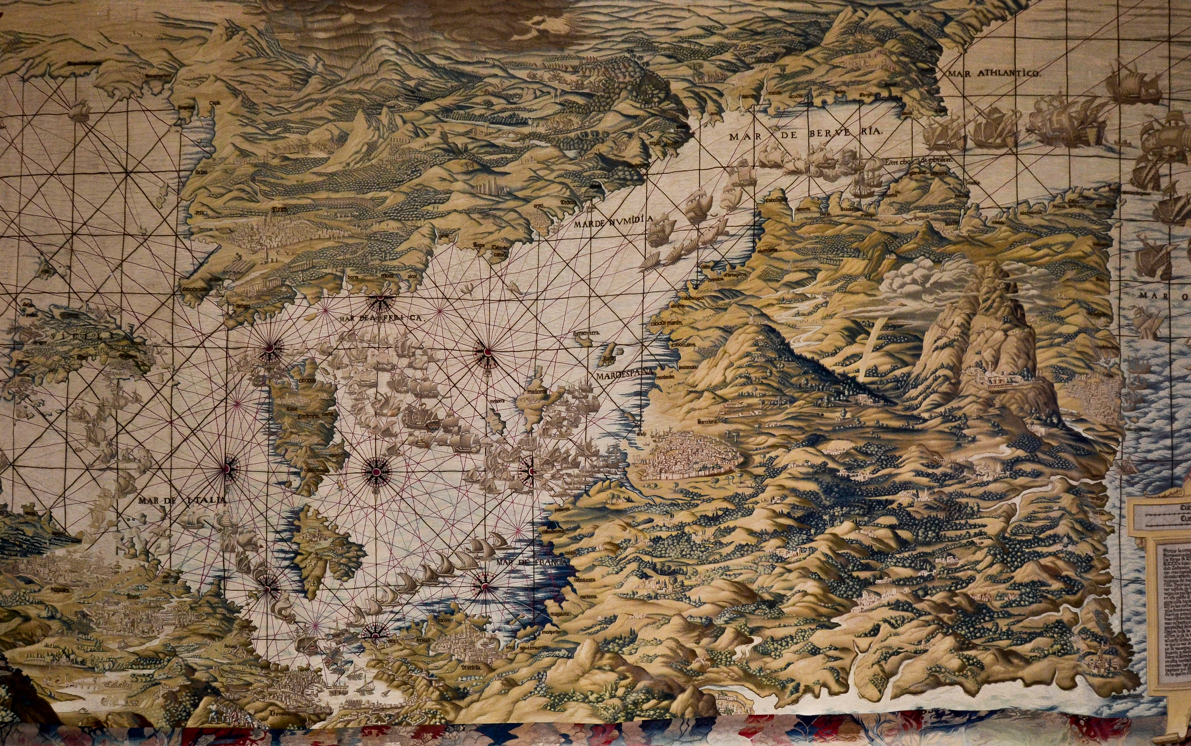 Map of Mediterranean Basin. First tapestry of the series dedicated to the Conquest of Tunis in 1535 by Charles V, Holy Roman Emperor, and its allies. Jan Vermeyen presents the Western Mediterranean Sea map. This is the first south-up oriented map in the History. This Spanish set of the Conquest of Tunis was woven after the original cartoons (now in Vienna, Kunsthistorisches Museum, Sammlungen des allerhöchsten Kaiserhauses) designed by Jan Cornelis Vermeyen & woven by Wilhelm de Pannemaker in 1549-1551.